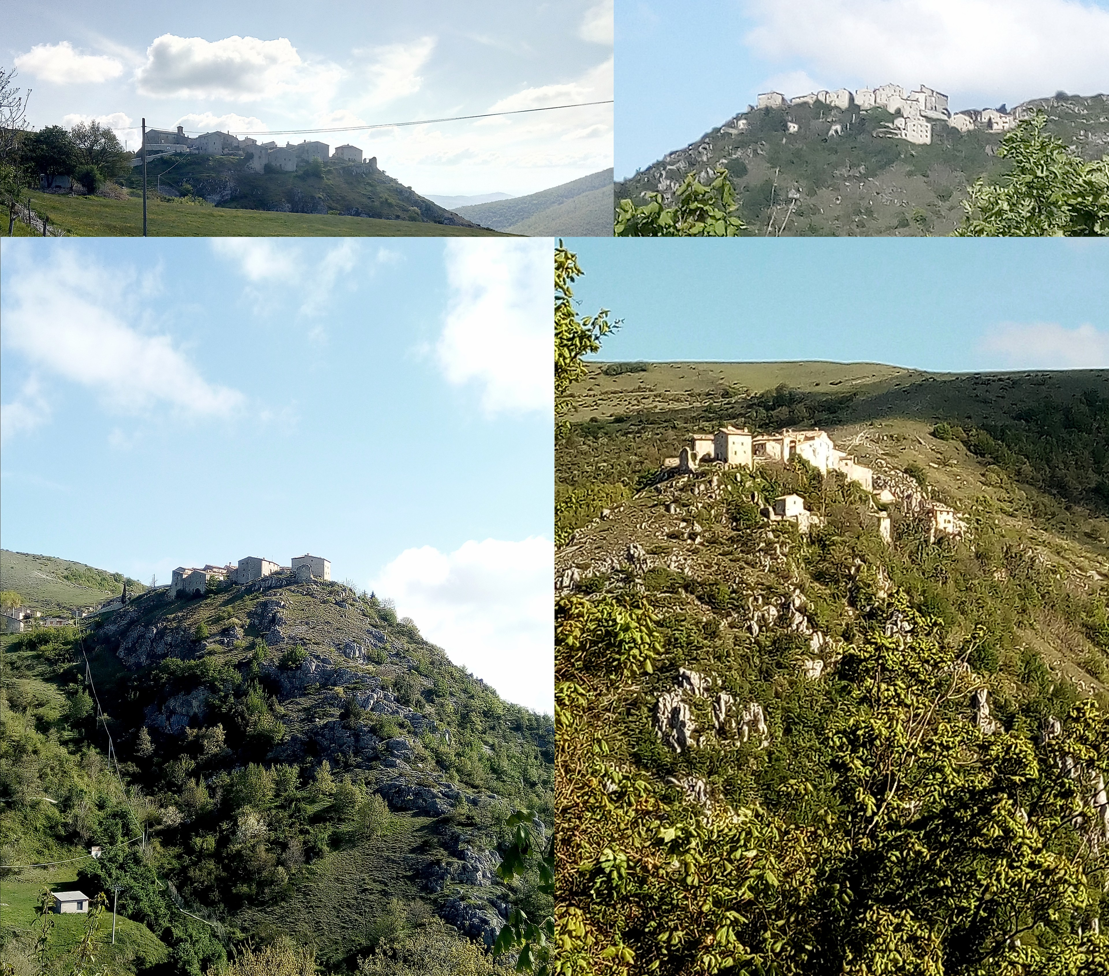 Elcito view from multiple fronts